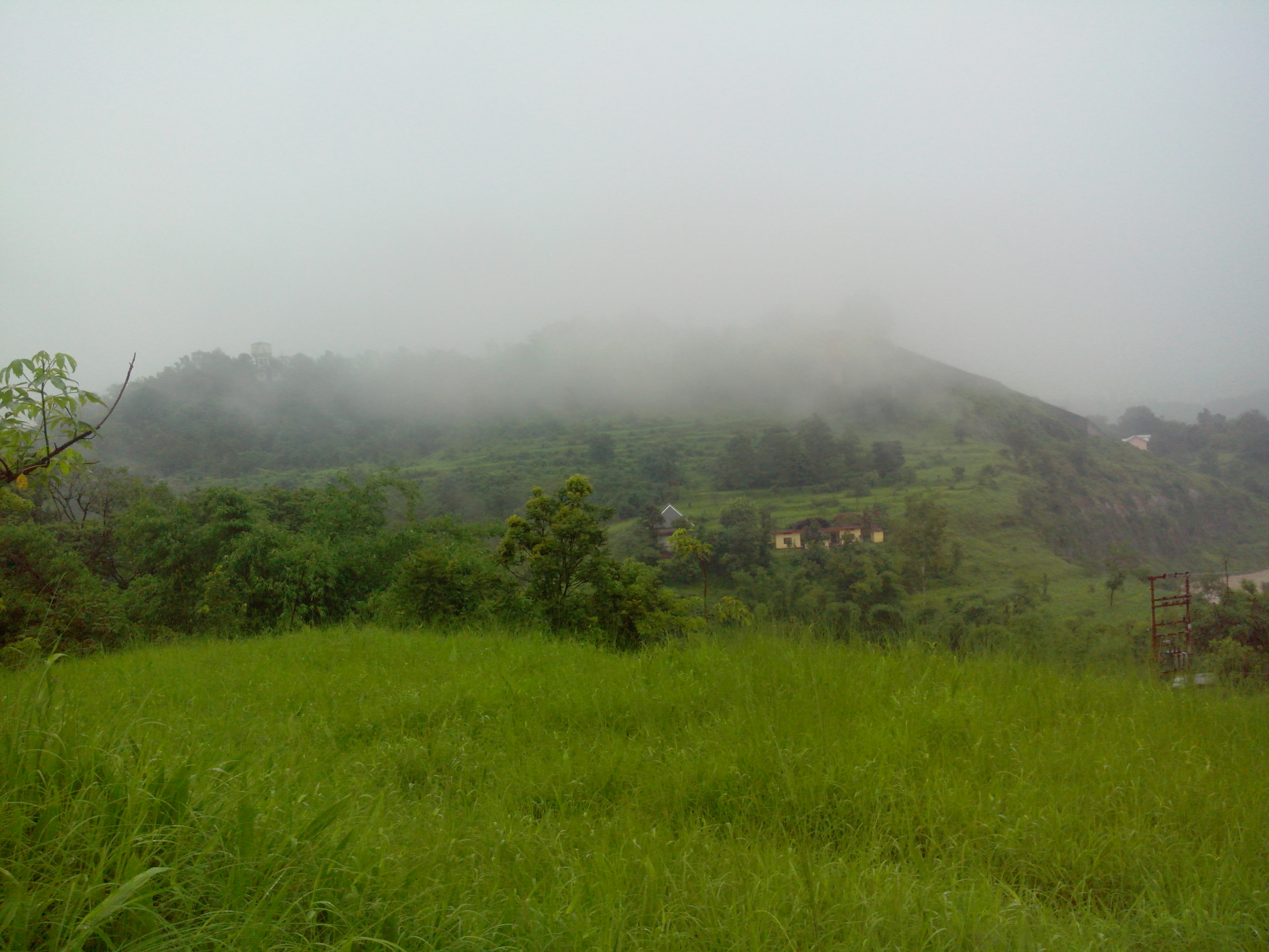 A beautiful place in India near hamirpur H.P